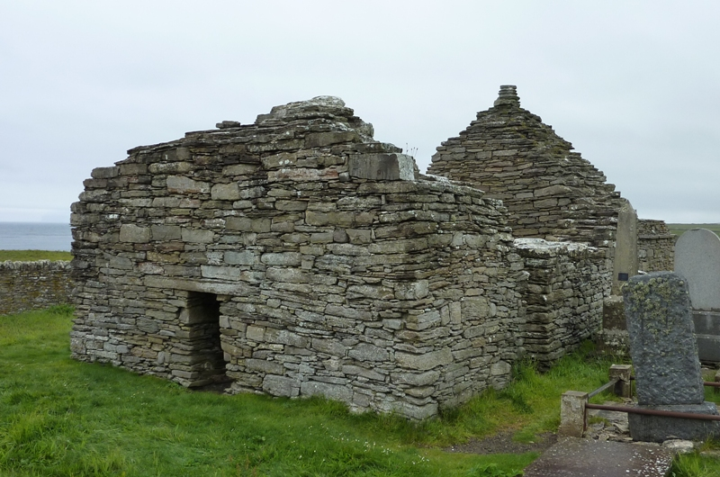 St Mary's Church, Crosskirk, Caithness, Scotland - from the south west